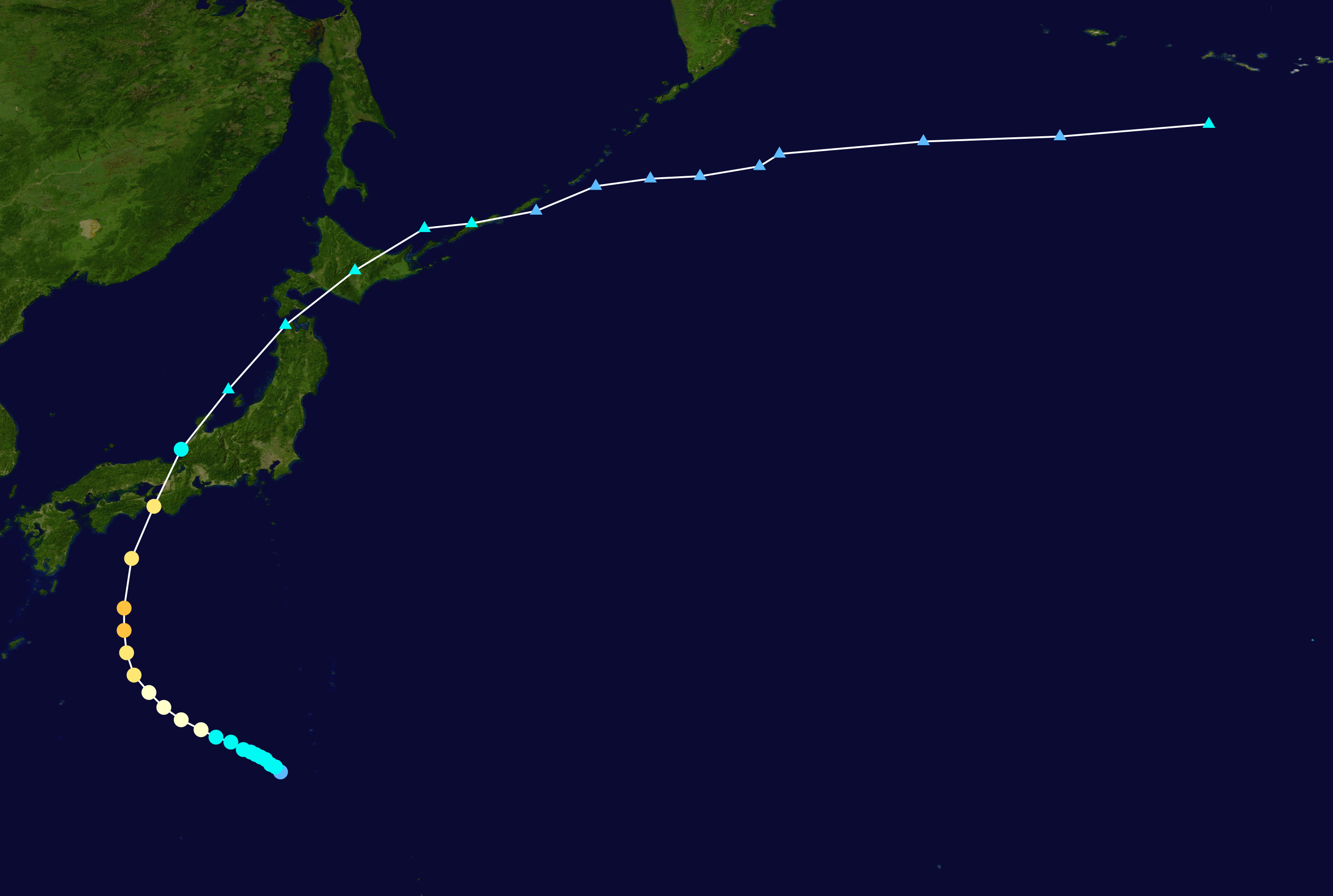 Track map of Typhoon Jane of the 1950 Pacific typhoon season. The points show the location of the storm at 6-hour intervals. The colour represents the storm's maximum sustained wind speeds as classified in the Saffir–Simpson scale (see below), and the shape of the data points represent the nature of the storm, according to the legend below. Saffir–Simpson scale Tropical depression≤38 mph≤62 km/h Category 3111–129 mph178–208 km/h Tropical storm39–73 mph63–118 km/h Category 4130–156 mph209–251 km/h Category 174–95 mph119–153 km/h Category 5≥157 mph≥252 km/h Category 296–110 mph154–177 km/h Unknown Storm type Tropical cyclone Subtropical cyclone Extratropical cyclone / Remnant low / Tropical disturbance